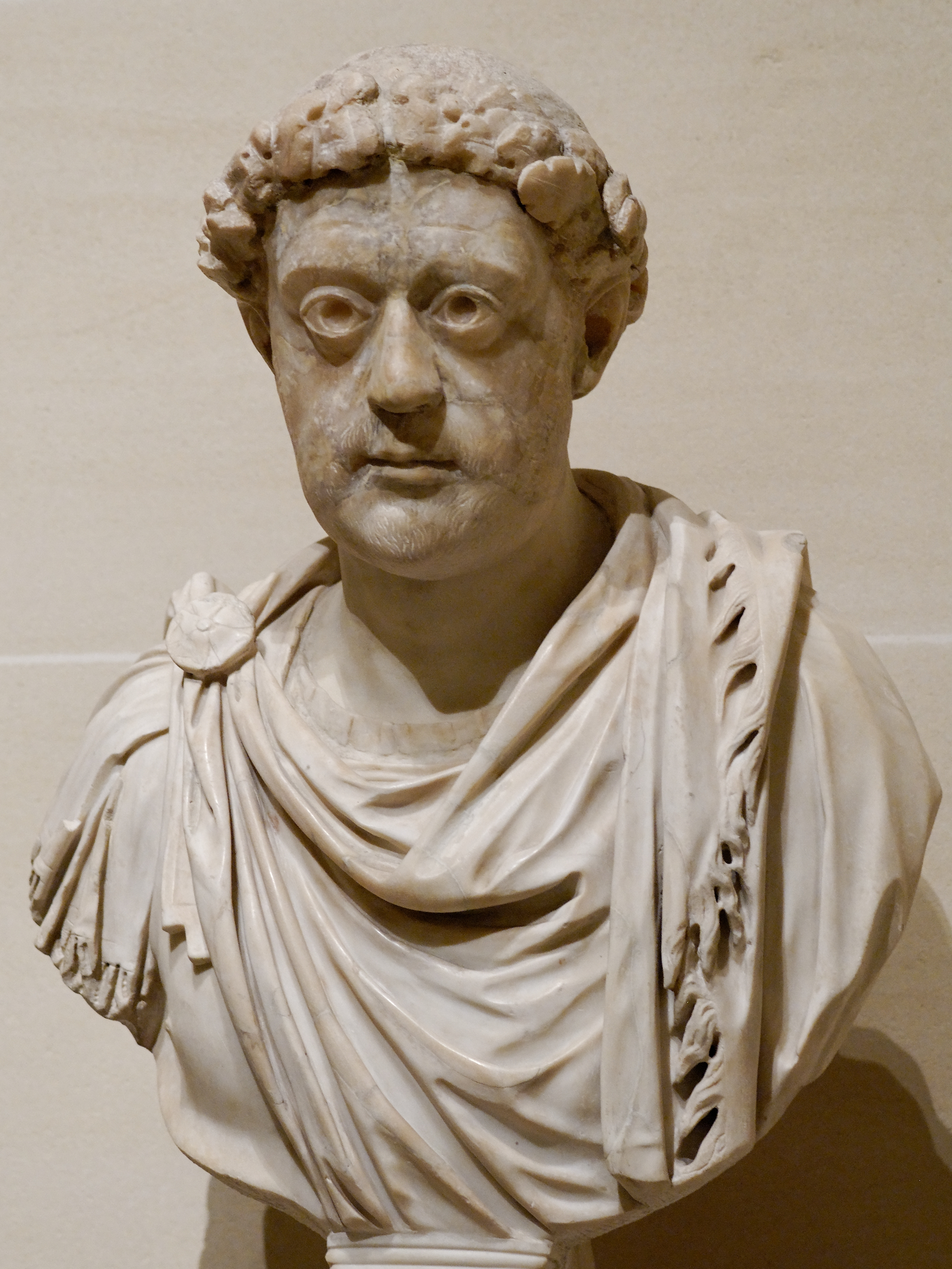 Bust of Byzantine Empreror Leo I (reigned 457-474). Alabaster (antique head) and marble (modern restoration), ca. 470